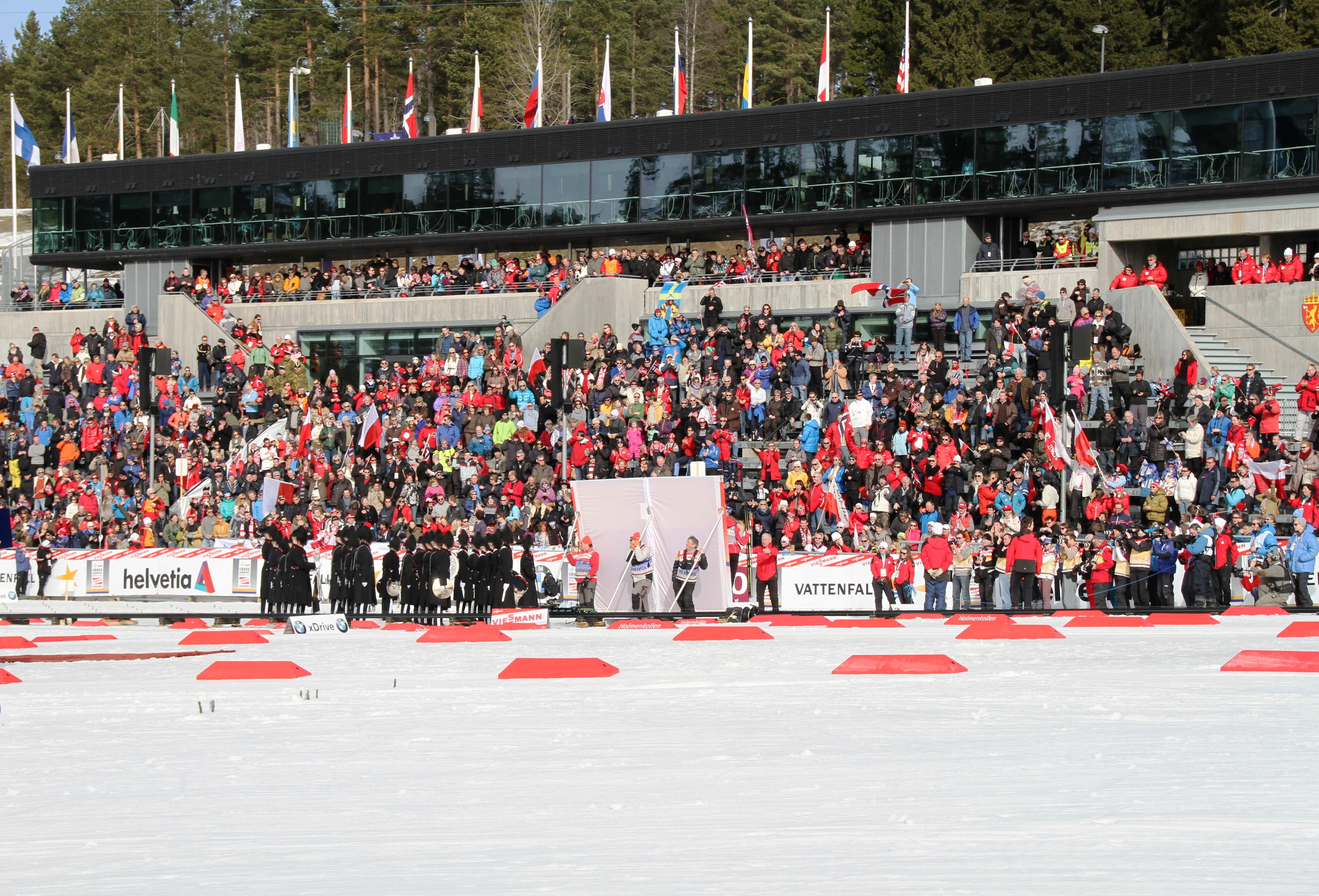 Holmenkollen 30 km women's Nordic Cross-country ceremony. Oslo, Norway, March 11, 2012.